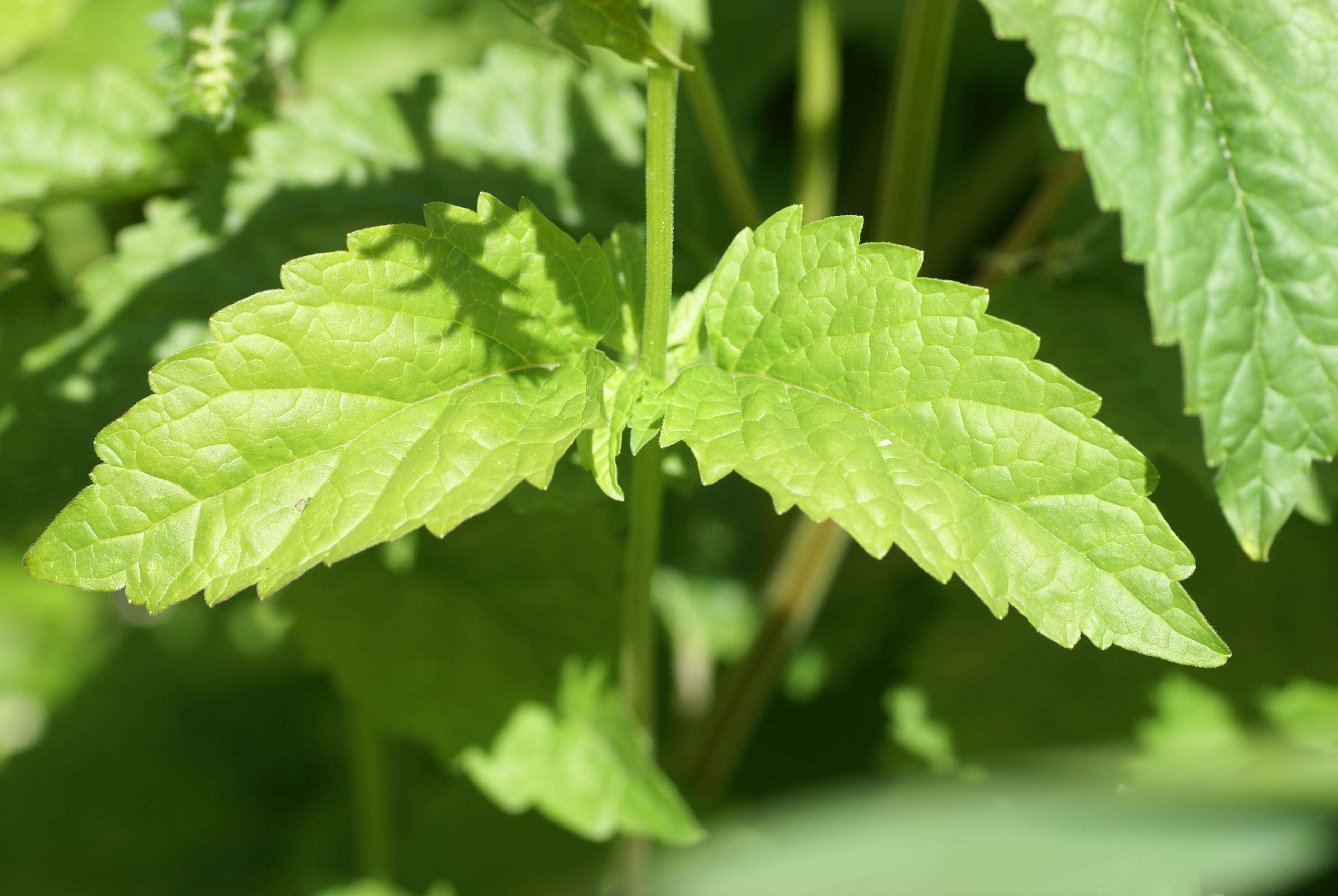 Plant species Scutellaria altissima in Botaniska trädgården in Uppsala, Sweden